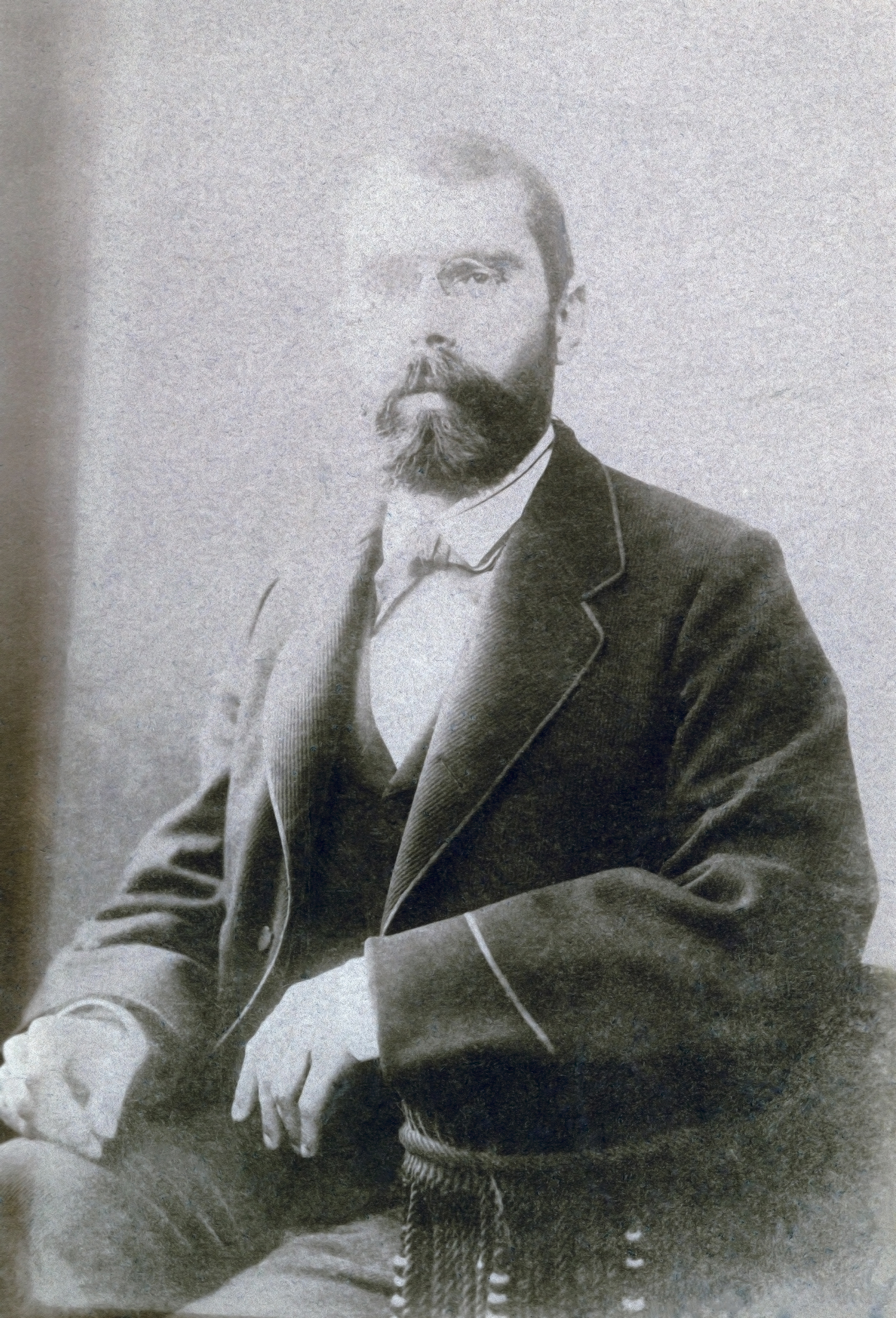 Édouard Harlé – French prehistorian (1850 - 1922) Source: Library and Documentation Service Museum of Toulouse